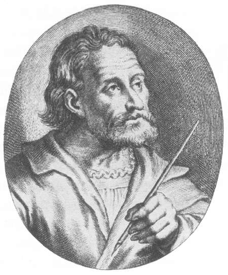 Engraving according to the Half length portrait of a man with a pinfeather looking up, therefore according to the most recent research probably not an image of Grünewald but rather of a study of the writing John the Evangelist on Patmos